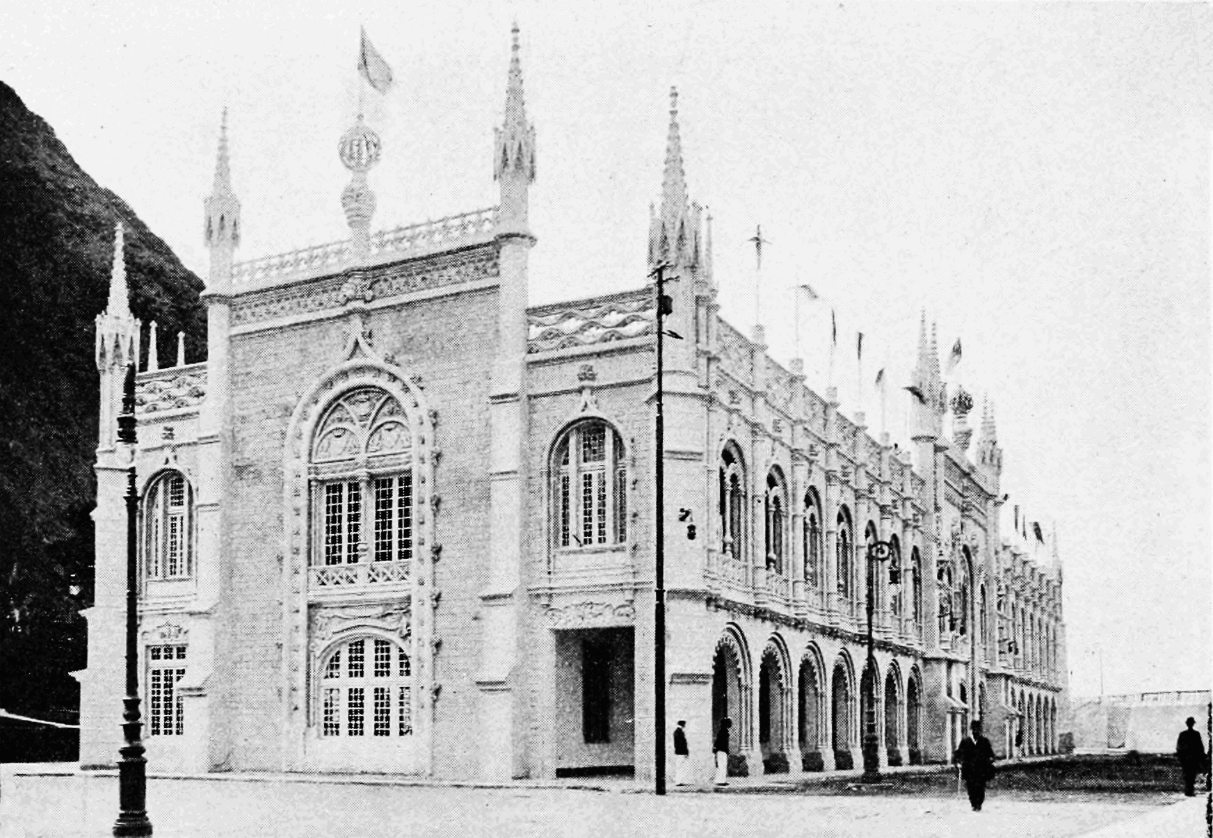 The Portuguese Pavilion at the Rio de Janeiro Exposition 1908